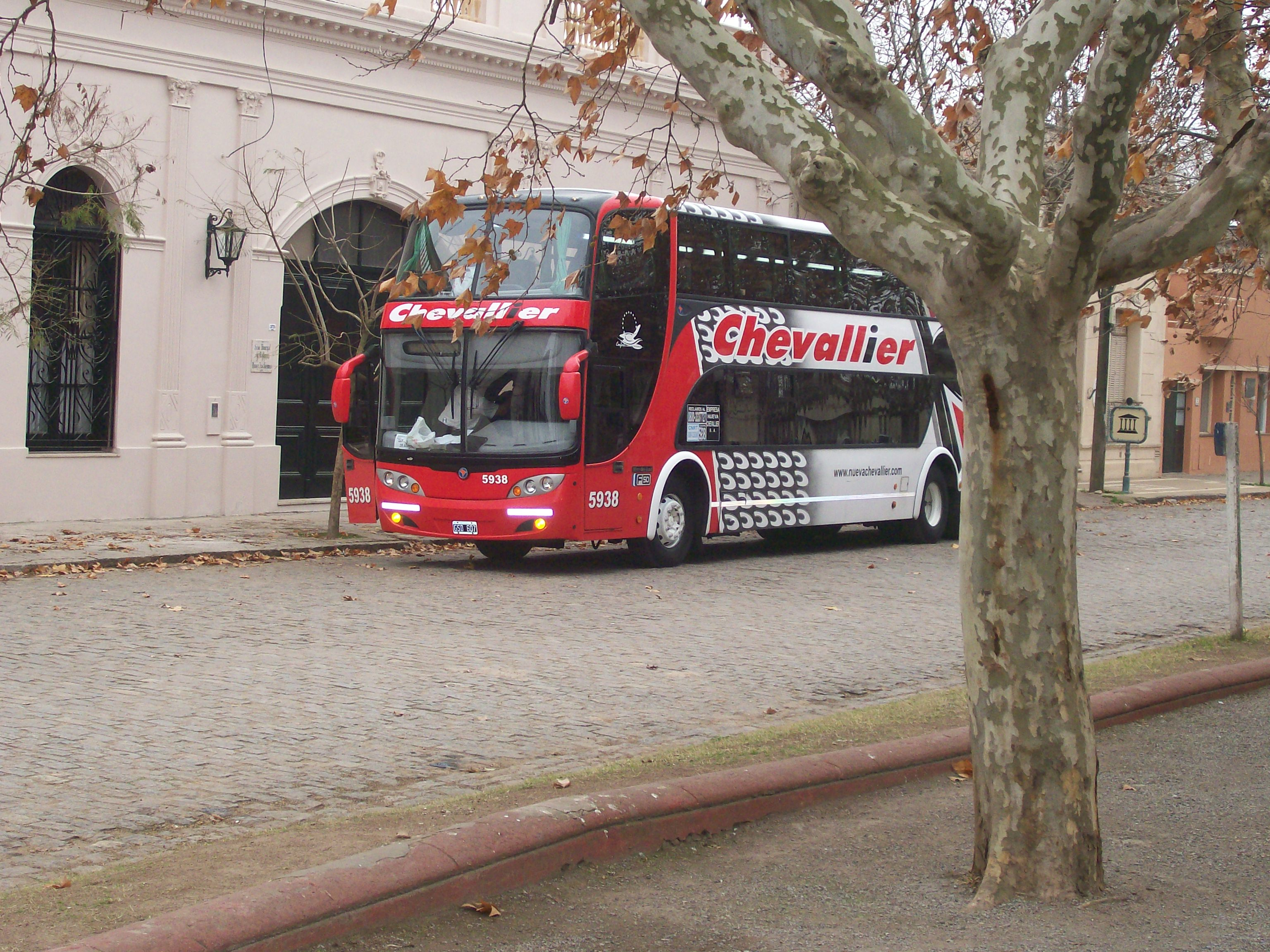 Double-decker coach (reg. GSO 607, #5938) with Scania chassis in Argentina. Nueva Chevallier S.A. operator.